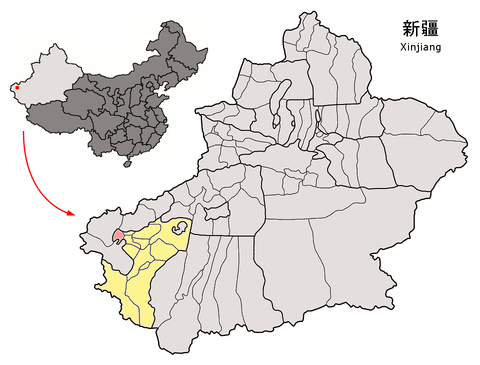 Location of Shufu County (pink) and Kashgar Prefecture (yellow) within Xinjiang autonomous region of China Map drawn in september 2007 using various sources, mainly : Xinjiang Uygur autonomous region administrative regions GIS data: 1:1M, County level, 1990 Xinjiang Counties map from